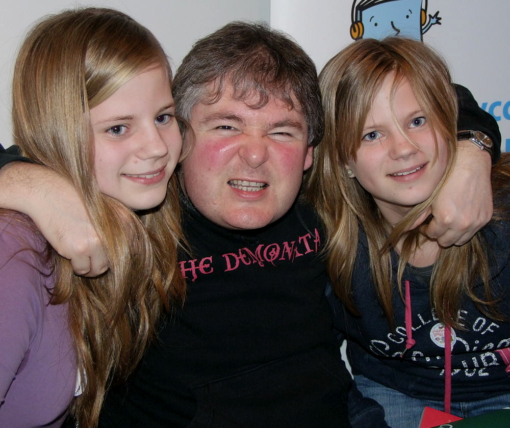 Darren Shan with Swedish fans at the 2011 Surrey Libraries' Children's Book Festival.